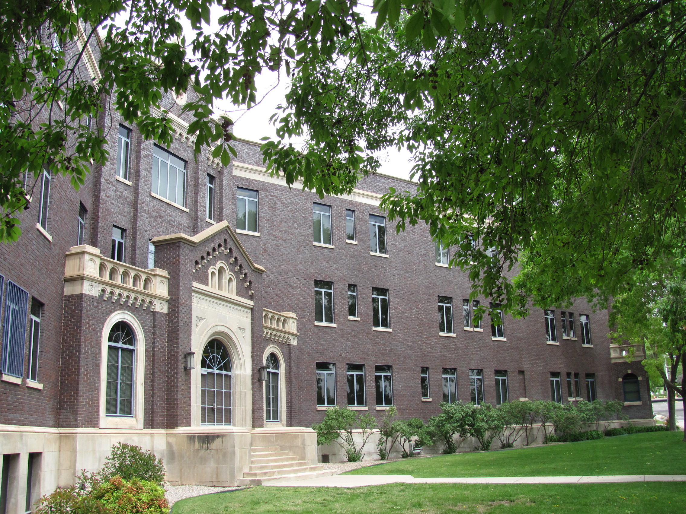 Saint Joseph 1930 Hospital, Albuquerque New Mexico